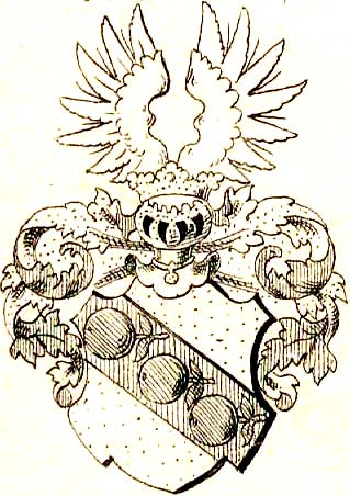 Coat of arms von Obstfelder